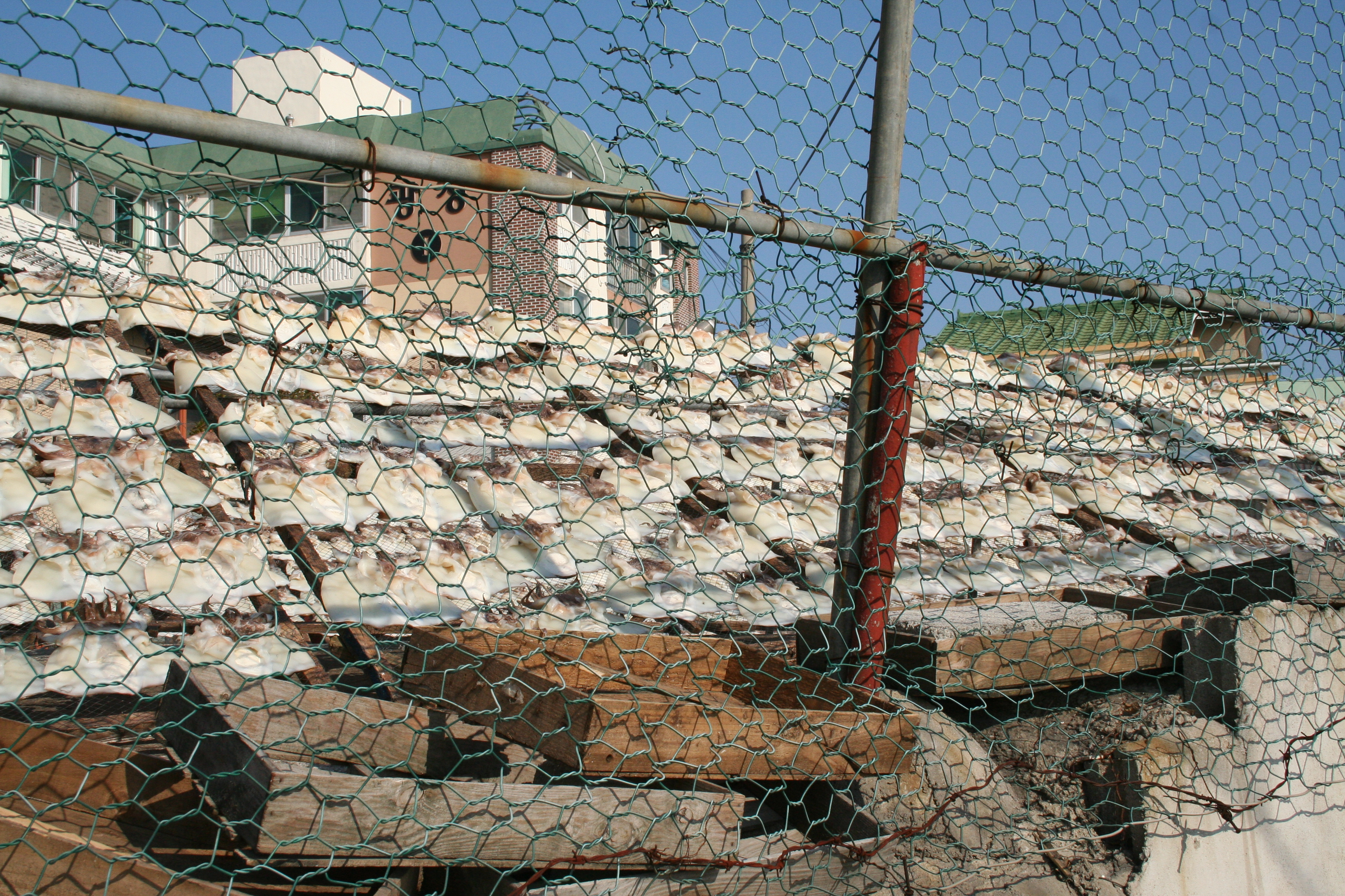 Picture taken by this user and it is released to the public domain